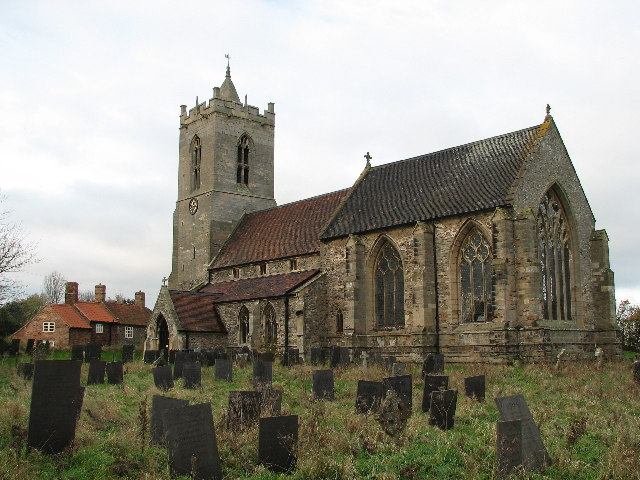 Saint Mary's Church, Car Colston. The church consists of a chancel, N and S aisles, nave and W tower and S porch. The earliest part of the existing structure is the lower part of the tower, which is 13thc., the remainder of the tower being Perp faced with Ancaster stone. The chancel and nave date from the 14thc. There is a very fine 14thc. piscina and sedilia on the S side of the chancel. The font is the only Romanesque feature.